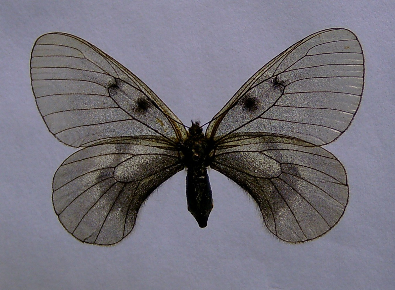 Parnassius mnemosyne